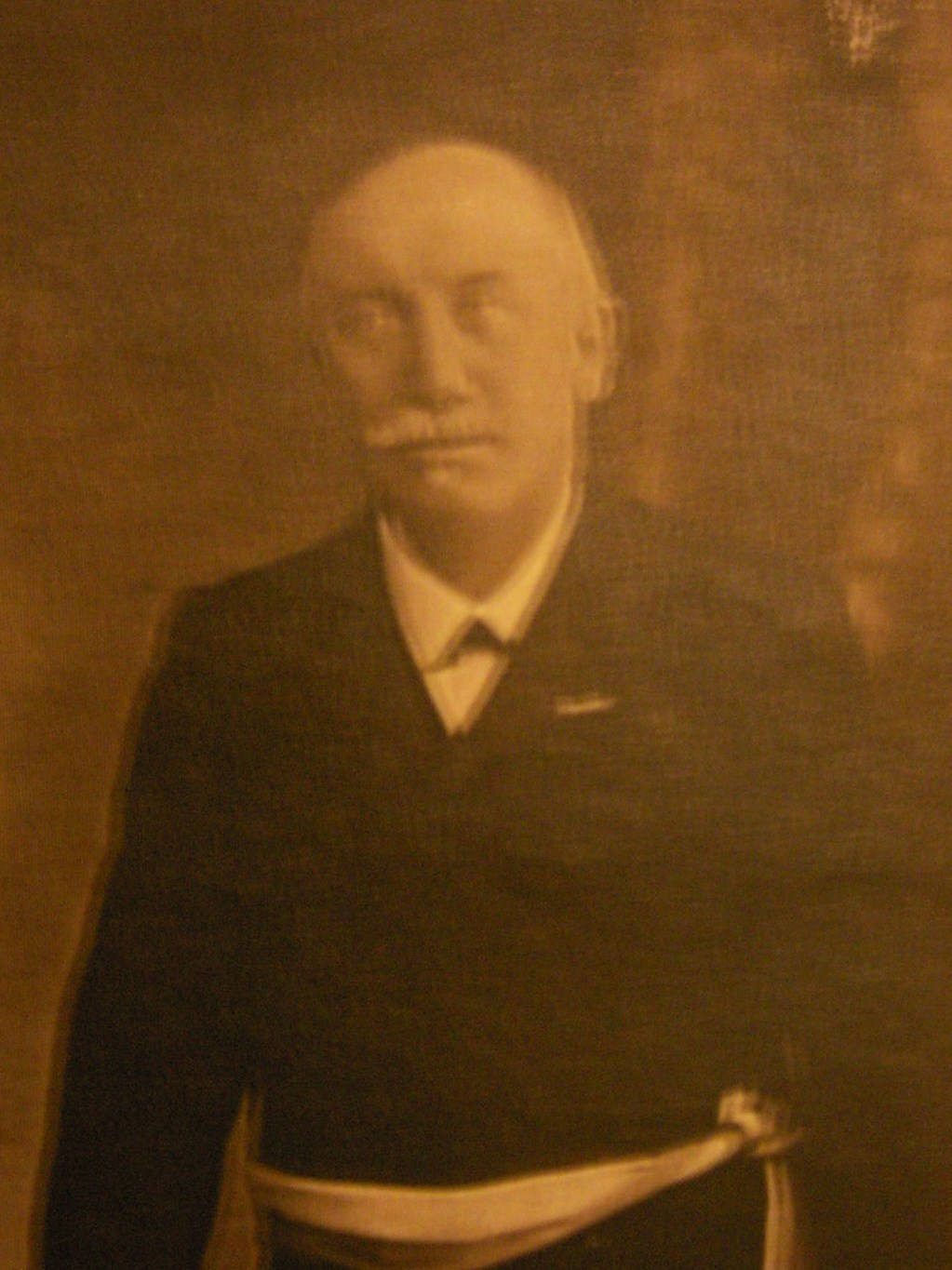 Germain Bénard